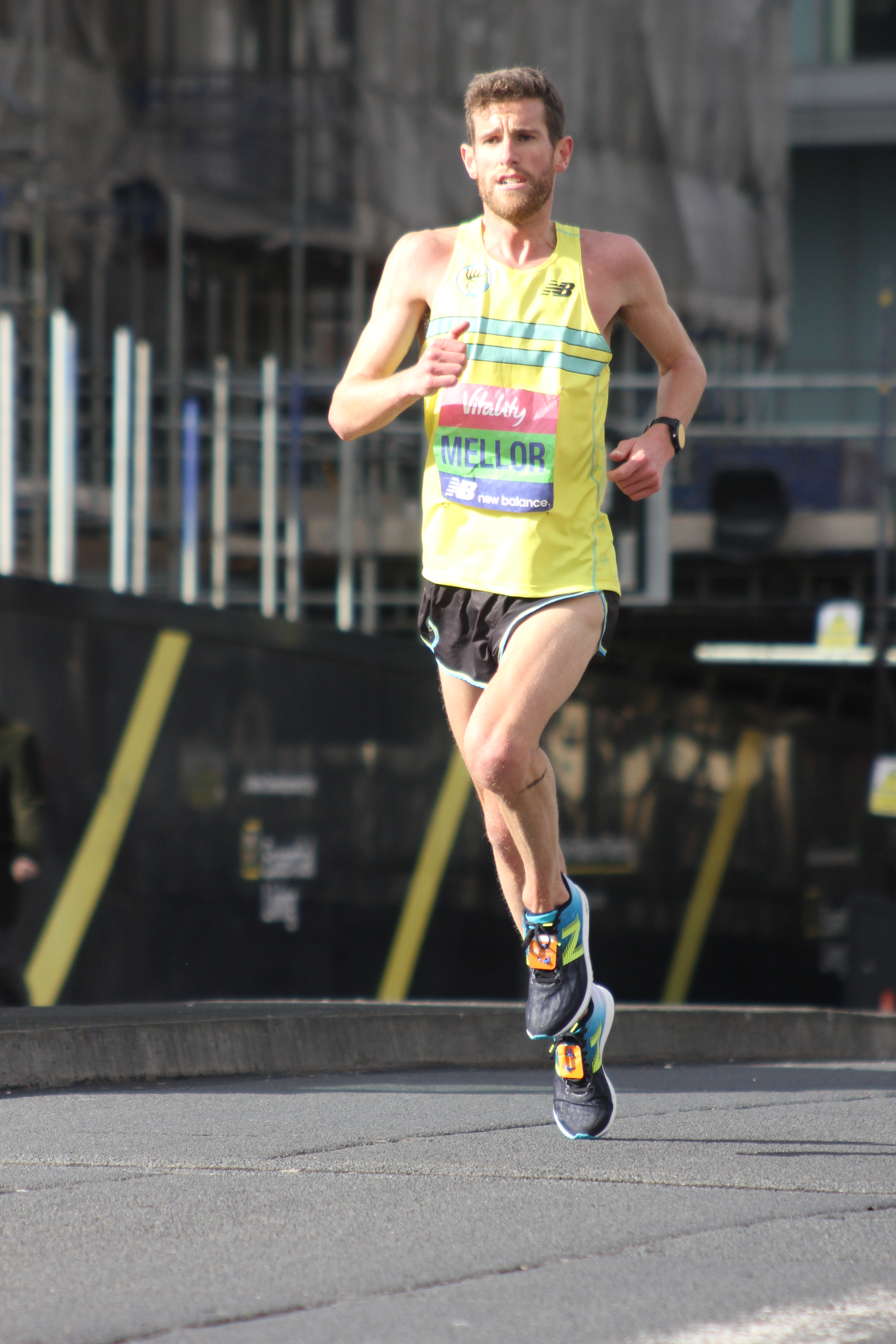 Jonathan Mellor, competing at 2019 London Half Marathon